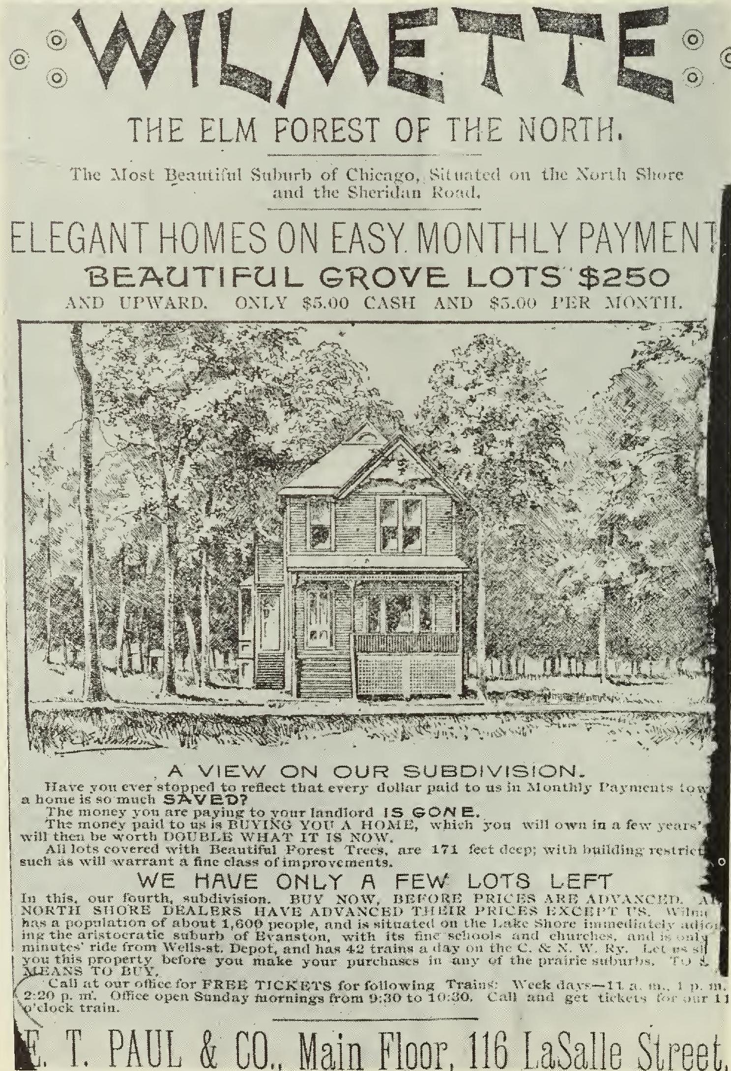 Wilmette and the suburban whirl : a series of historical sketches of life in the suburb from the turn of the century by Mulford, Herbert B Publication date 1956 Publisher Wilmette, Ill. : Wilmette Public Library Collection university_of_illinois_urbana-champaign; americana Digitizing sponsor University of Illinois Urbana-Champaign Contributor University of Illinois Urbana-Champaign Language English Bookplateleaf 0004 Call number 1151568 Camera Canon EOS 5D Mark II Identifier wilmettesuburban00mulf Identifier-ark ark:/13960/t71v6mz0x Ocr ABBYY FineReader 8.0 Openlibrary_edition OL25293649M Openlibrary_work OL16610530W Page-progression lr Pages 150 Possible copyright status Public domain. Published 1923-1963 with notice but no evidence of copyright renewal found in Stanford Copyright Renewal Database. for information. Ppi 500 Scandate 20120501162229 Scanner Scanningcenter il